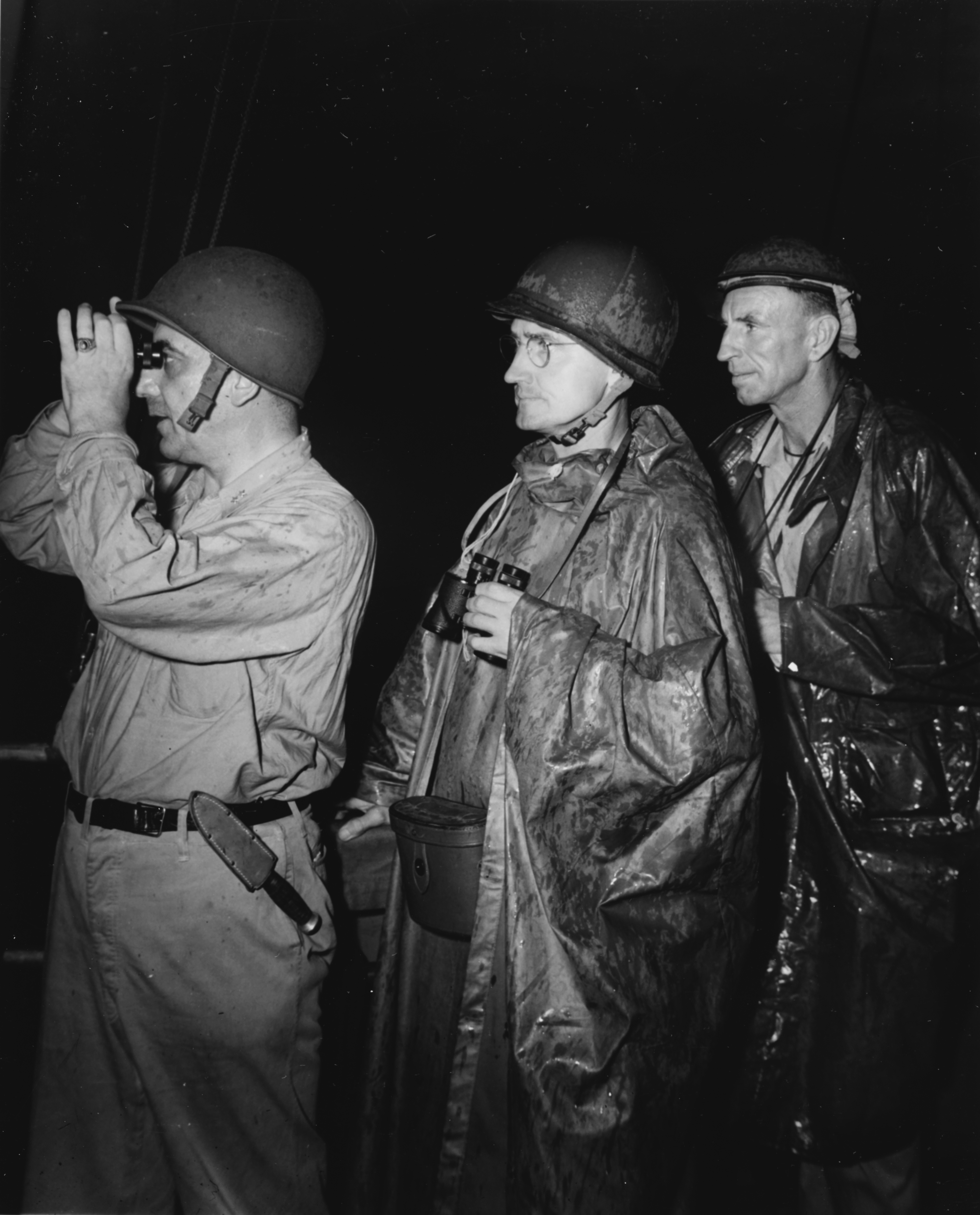 Saidor Invasion, January 1944: Allied senior officers watch the progress of invasion operations at Saidor, New Guinea, on 2 January 1944. Present are (left-right): Rear Admiral Daniel E. Barbey, USN, Commander Amphibious, Seventh Fleet; Brigadier General Clarence A. Martin, U.S. Army, Com. 32nd Division; and Brigadier General Ronald Nicholas Lamond Hopkins, Australian Liaison Officer. Note Rear Admiral Barbey's sheath knife.